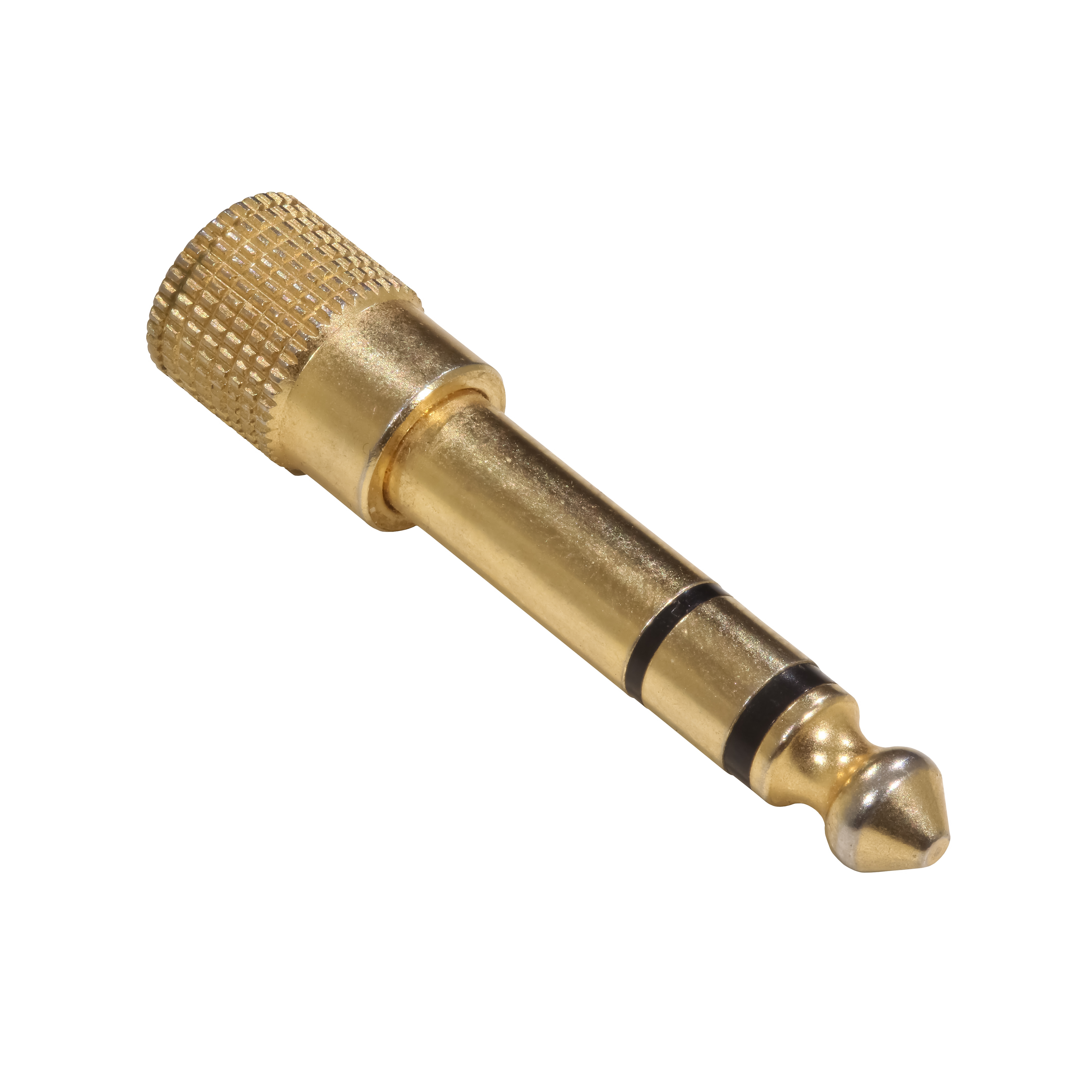 TRS connector